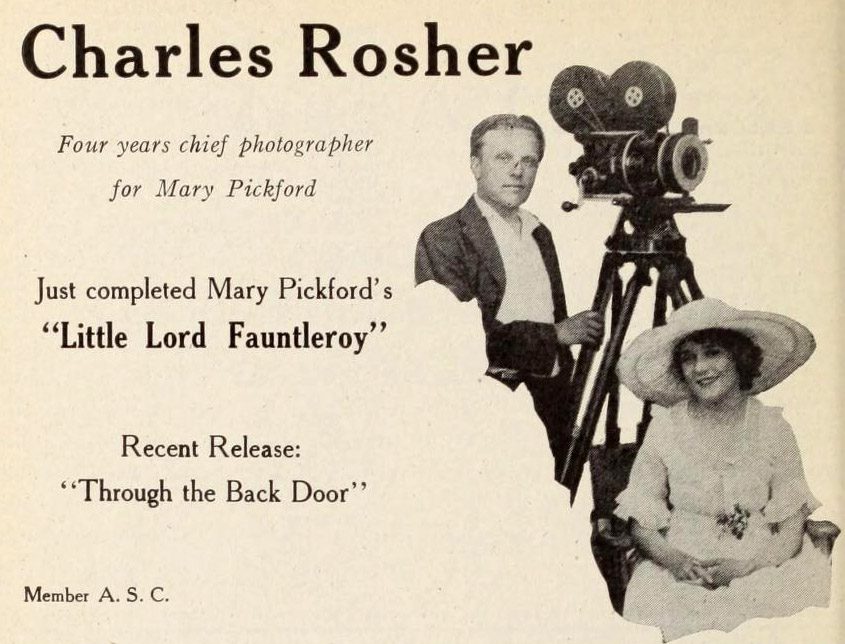 Promotional photo card with Charles Rosher and Mary Pickford.